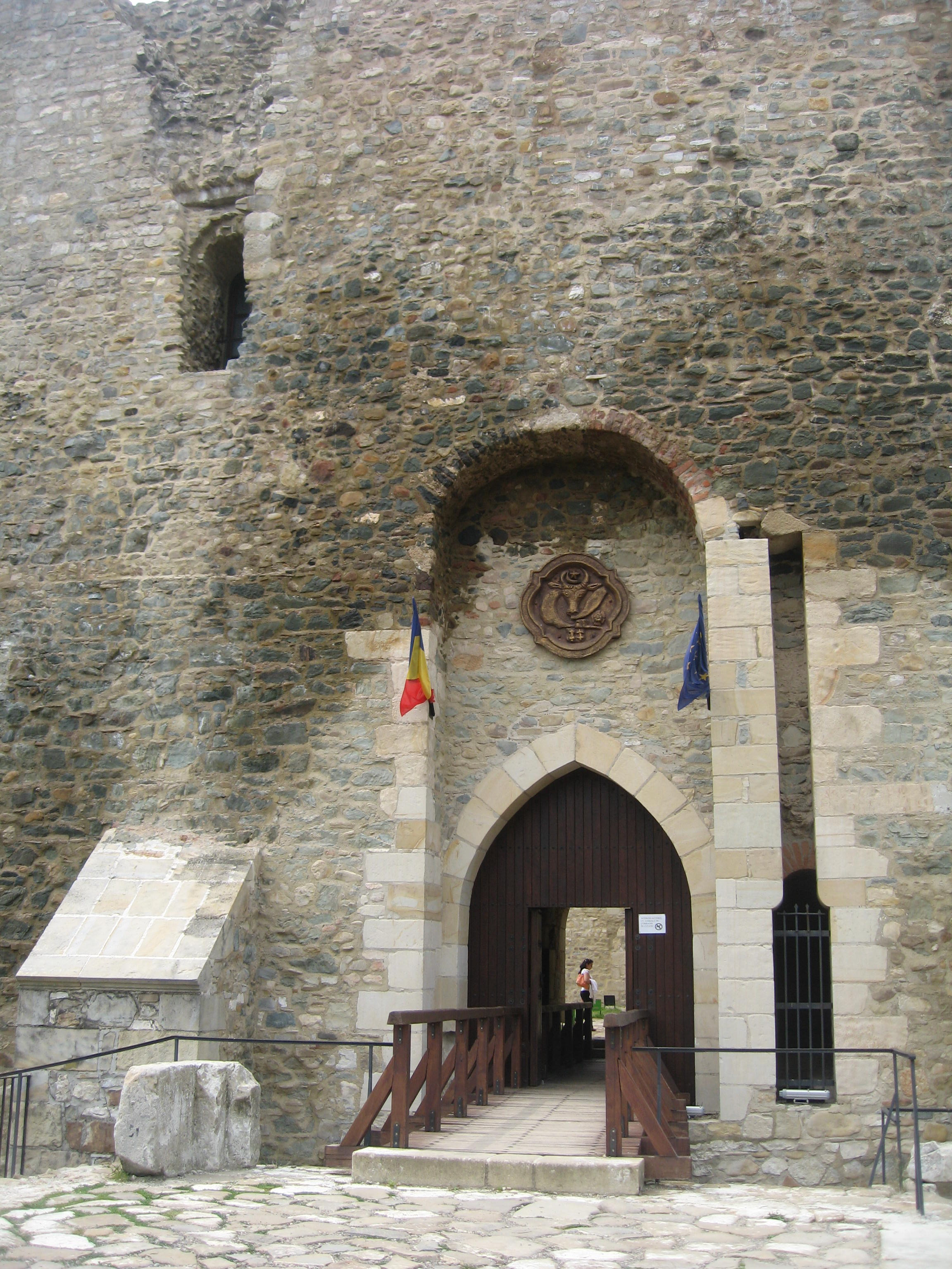 Neamț Citadel